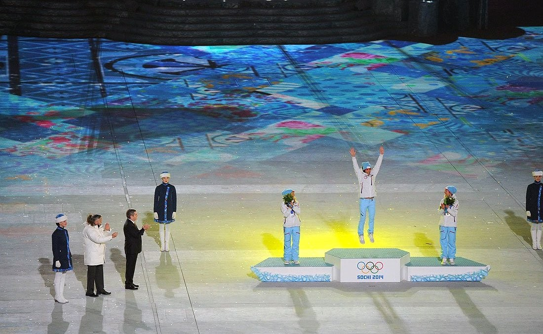 Ladies' 30 km Mass Start Free - Cross-Country - Sochi 2014 (at the closing ceremony) Gold: Marit Bjoergen, Norway. Silver: Therese Johaug, Norway. Bronze: Kristin Stoermer Steira, Norway (